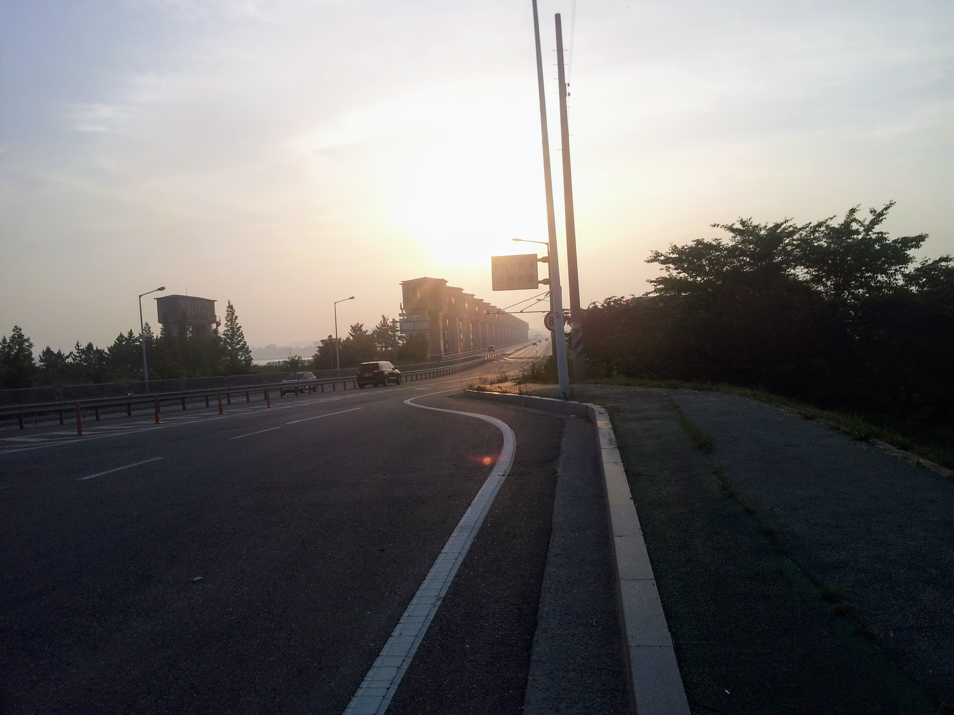 Geum river seawall at a sunset